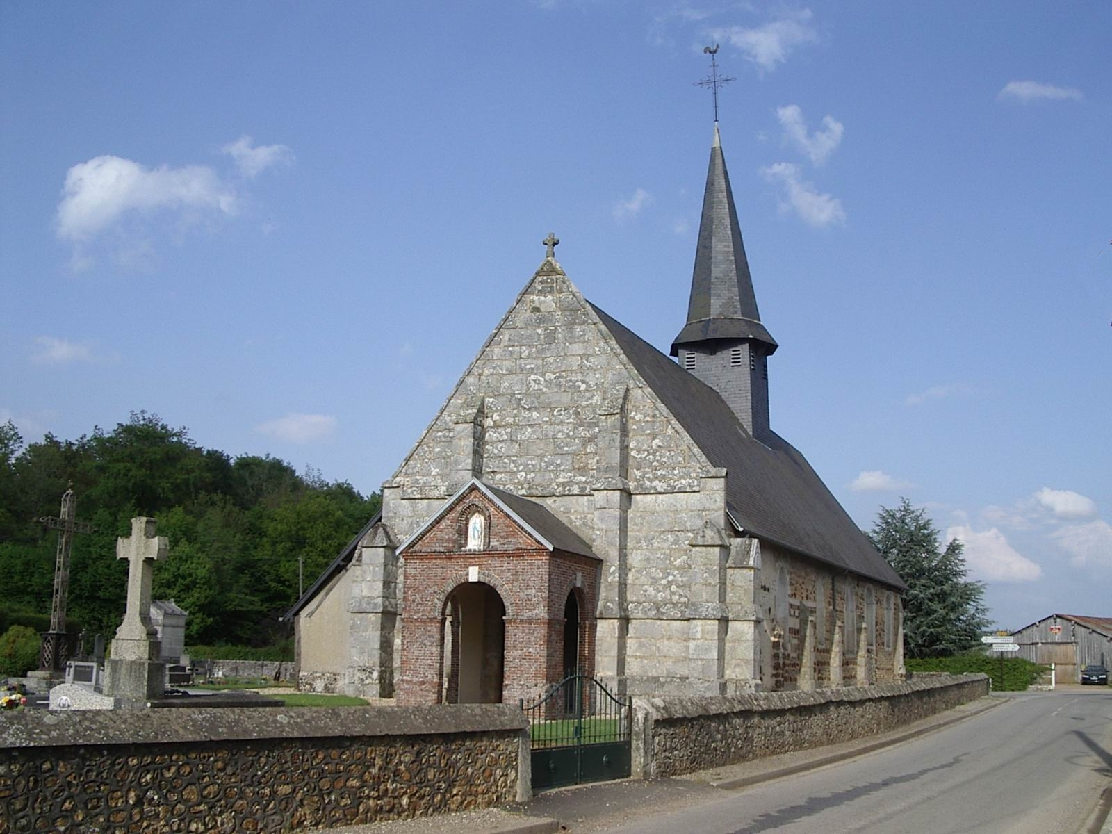 Churche of Epinay